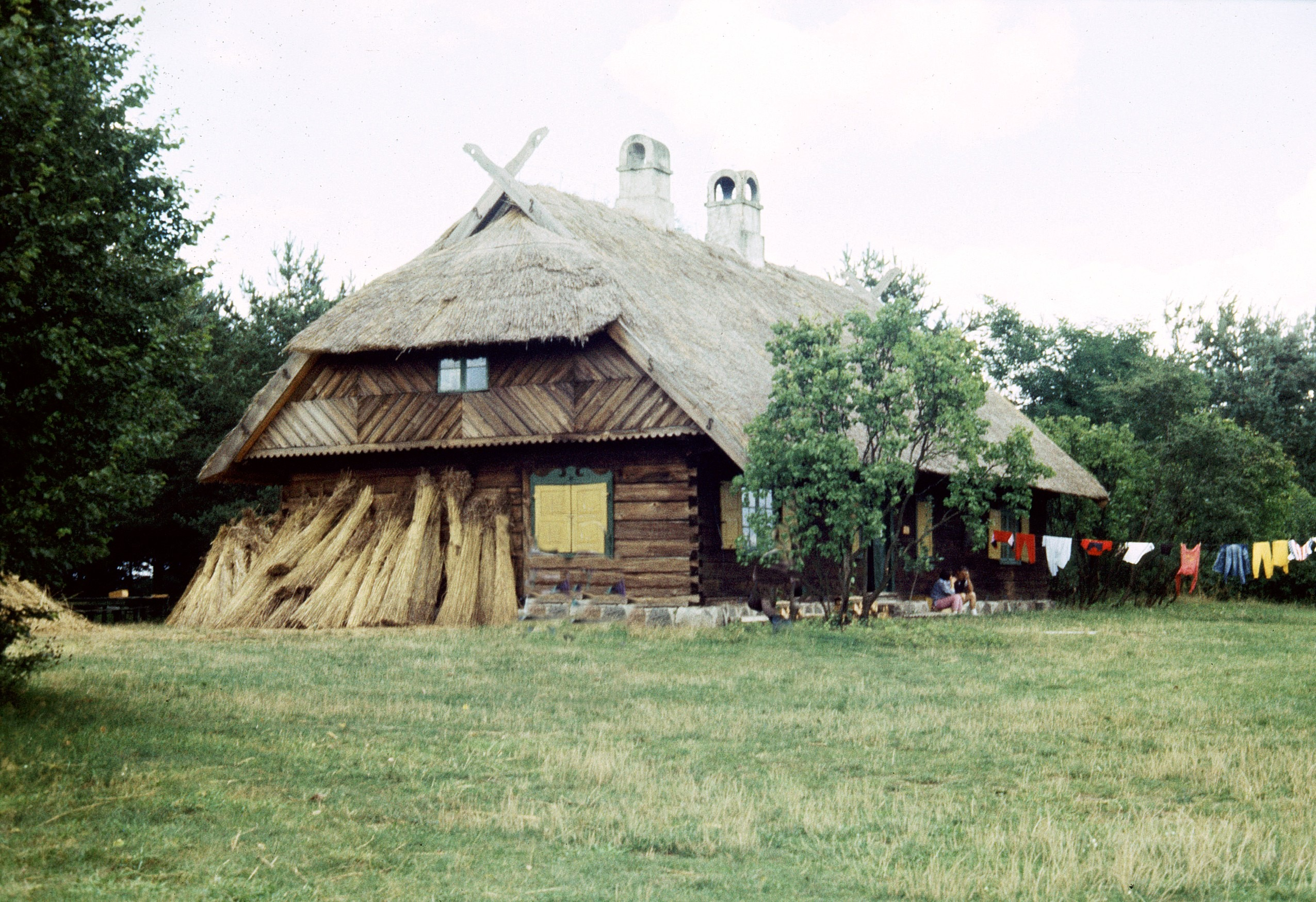 Olsztynek, outdoor museum, farm house